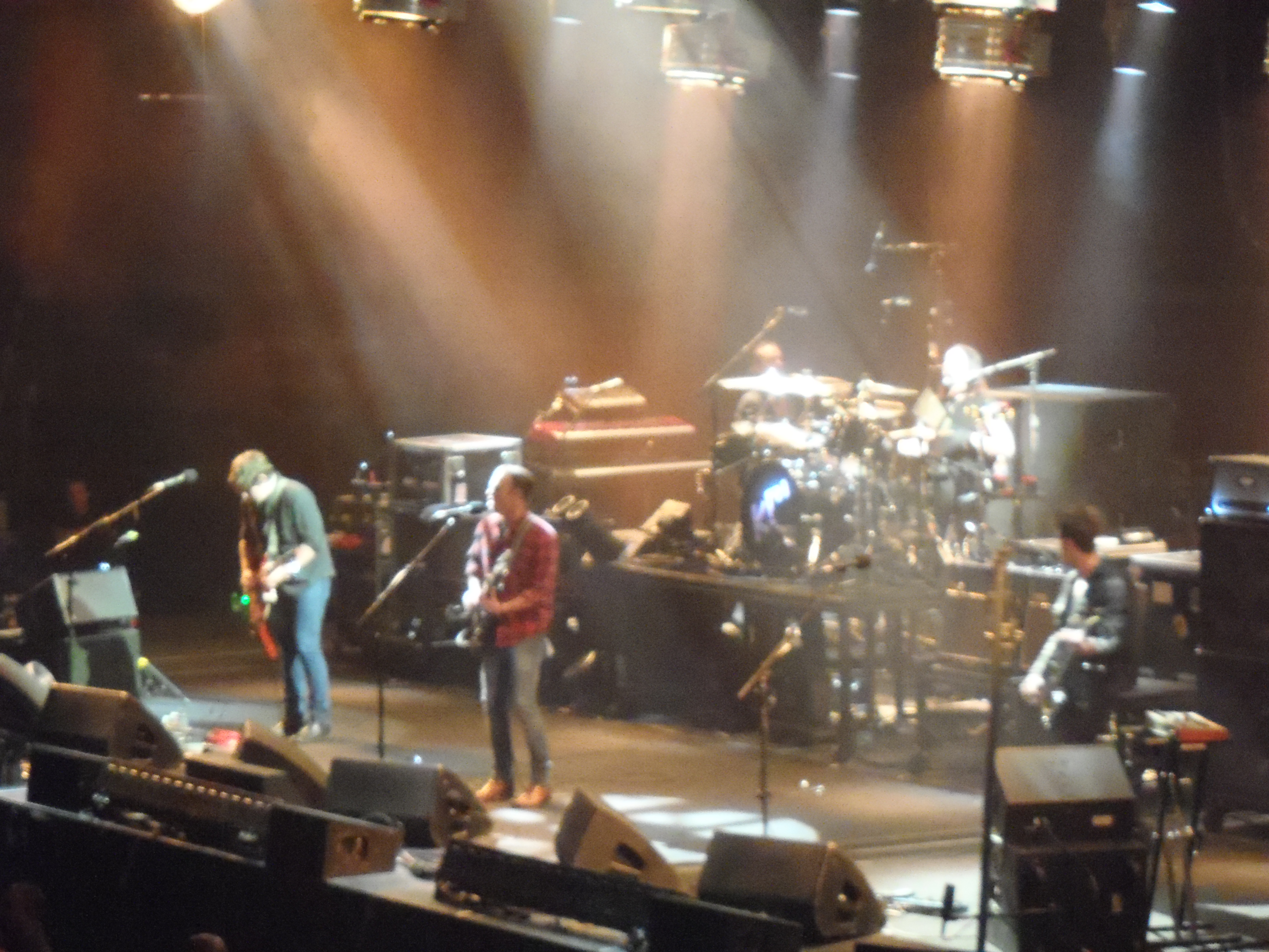 One of the many concerts I go to in Vancouver at Rogers Arena.